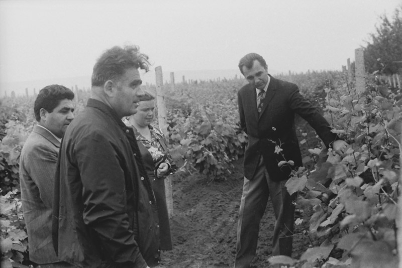 The Romanian delegation from Iasi during a visit to the vineyards of the collective farm "Rodina", Soviet Moldavia.